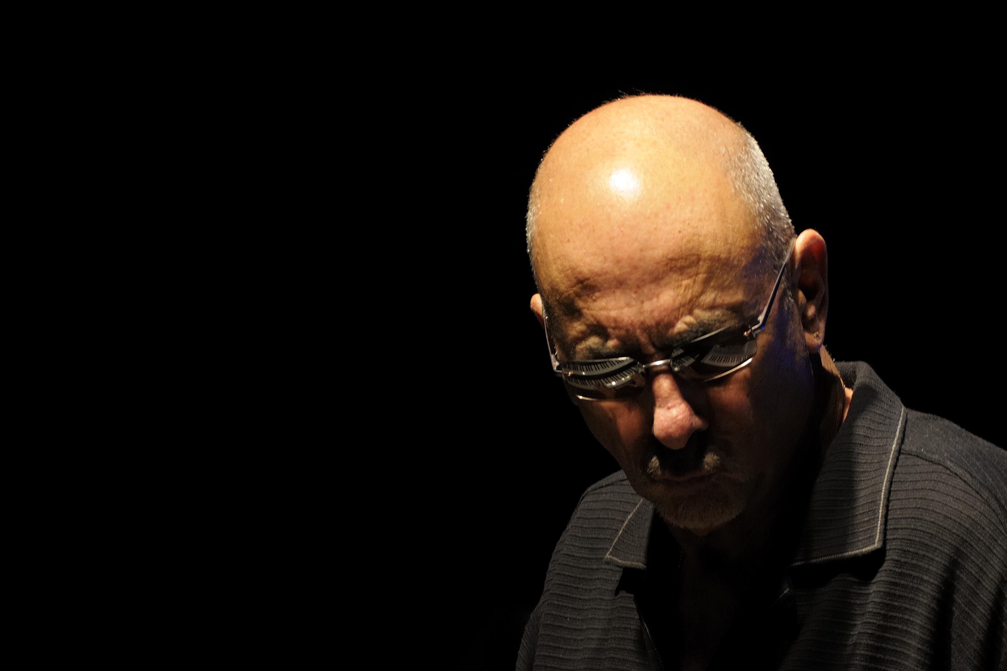 View all 12 photos from the clinic, concert and meet&greet